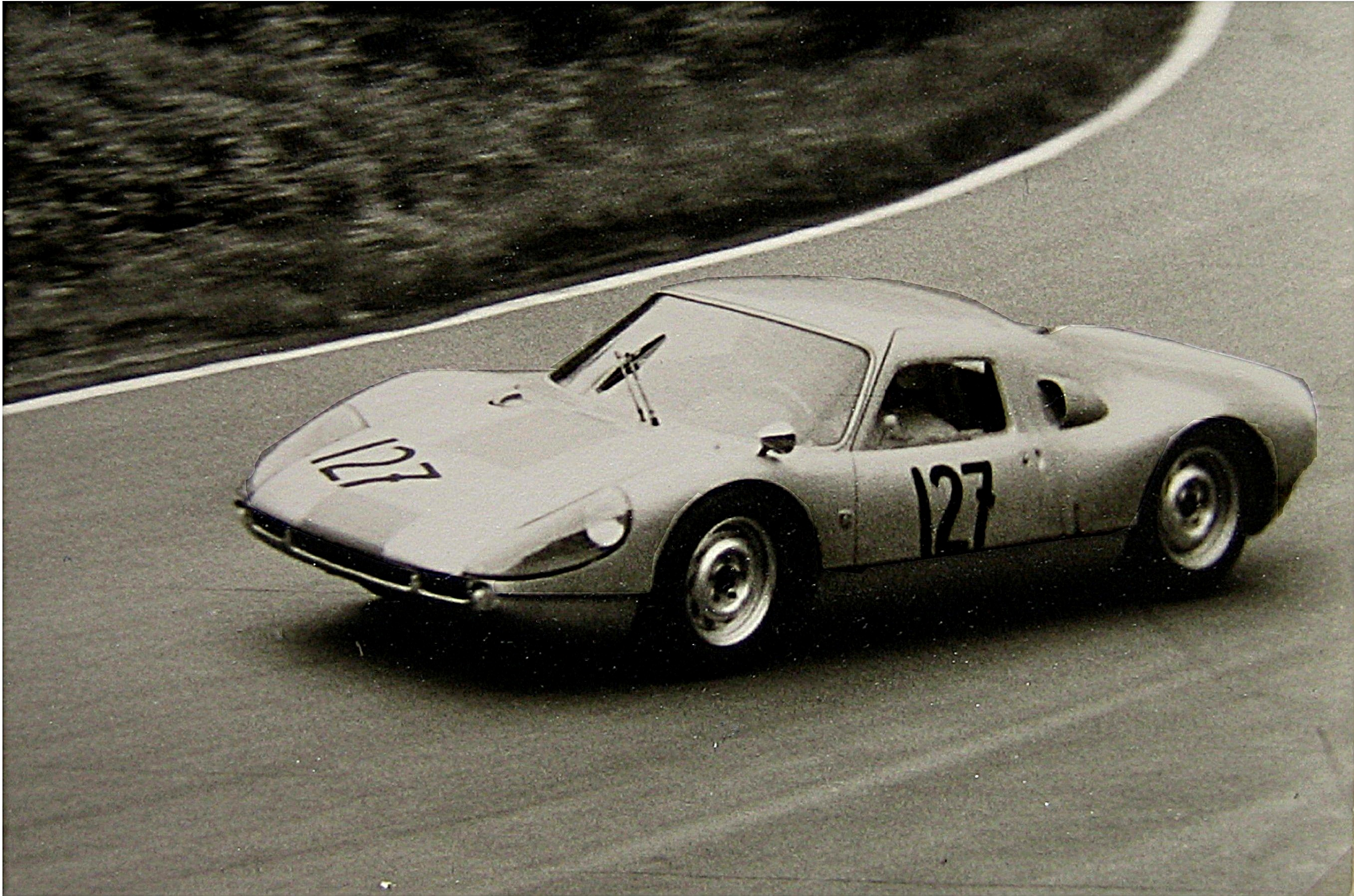 Porsche 904-8 at the corner Brünnchen in the trainings saison for the ADAC 1000-km race at the Nürburgring. Driver is properply Edgar Barth.